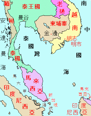 Bay of Thailand - a illustration map !!